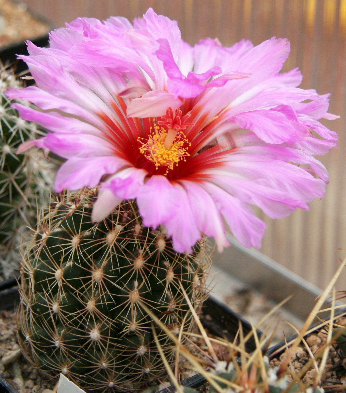 Thelocactus bicolor ssp. schwarzii